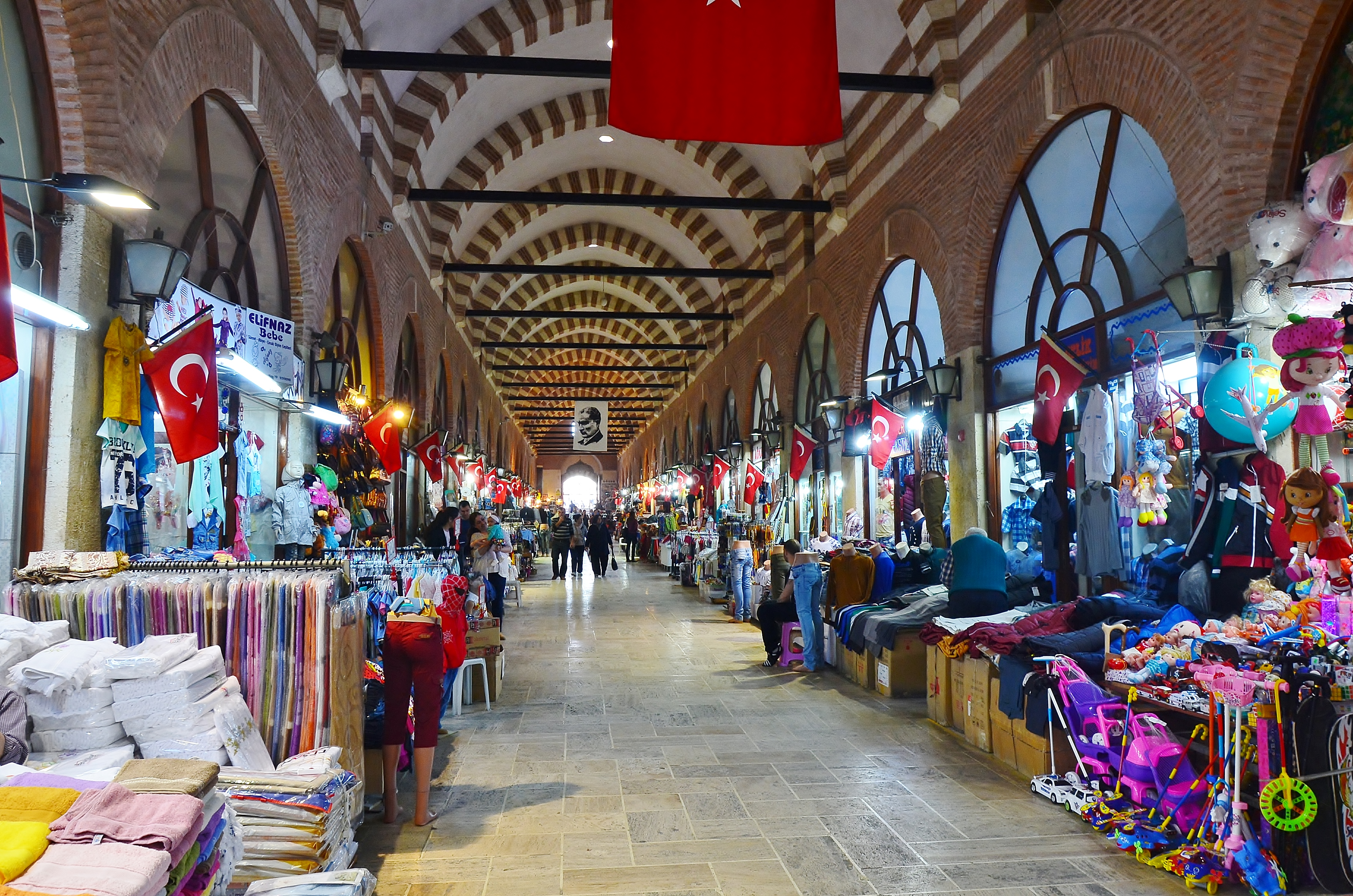 Ali Paşa Çarşısı (Ali Pasha Bazaar) in Edirne, Turkey